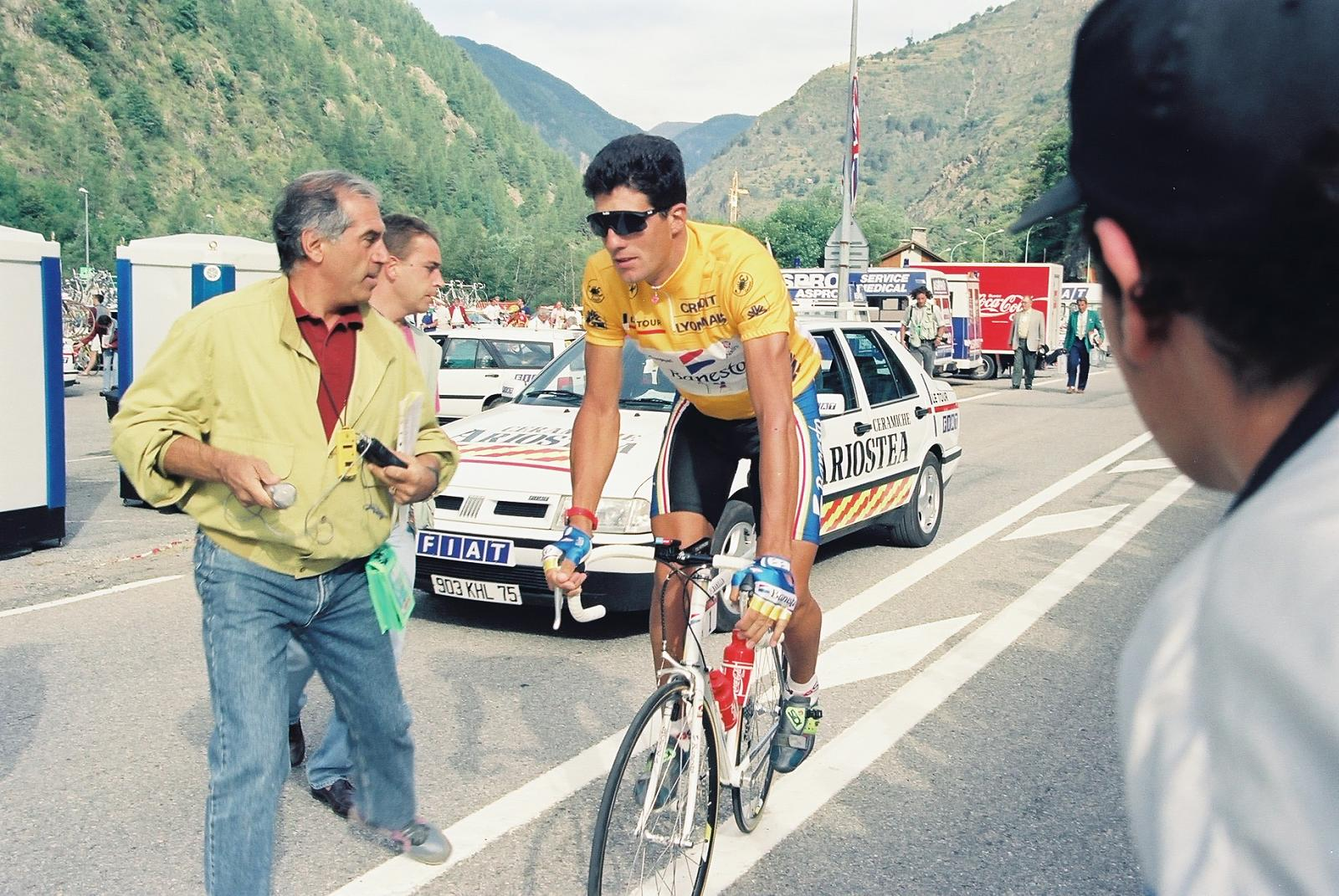 Miguel Indurain (Tour de France 1993)